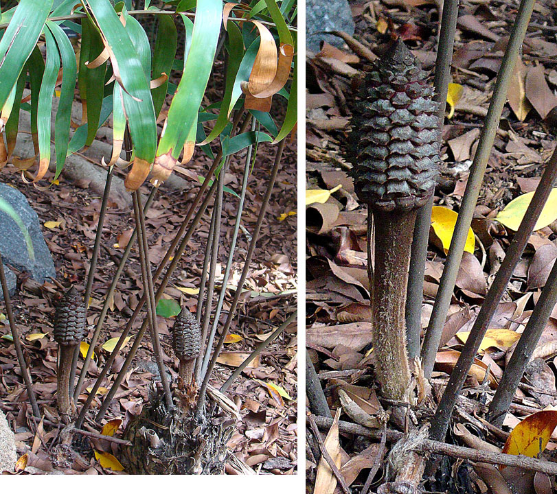 Of Mexican origin, here at the San Diego Zoo. In context at